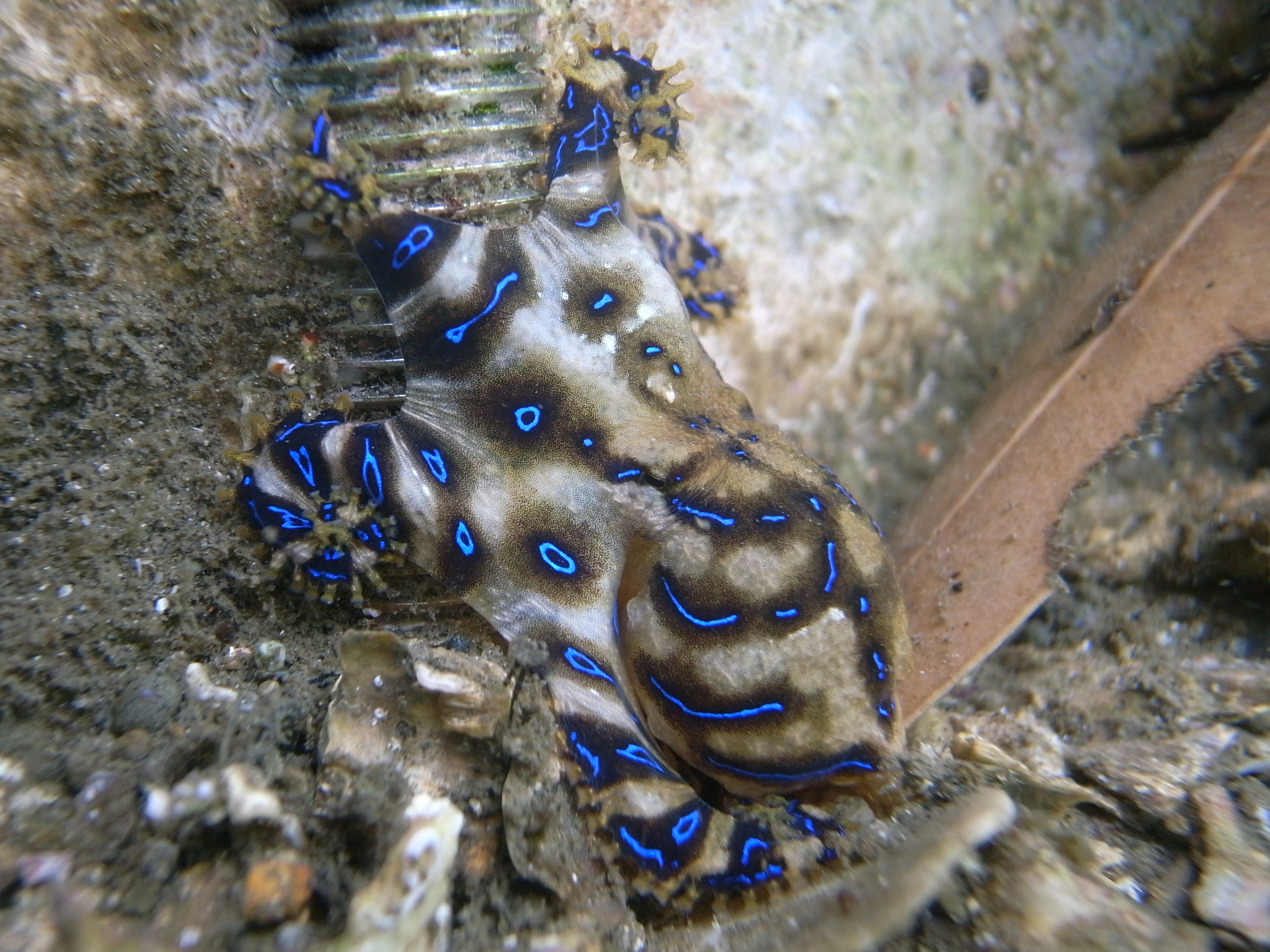 The "Tron" octopus